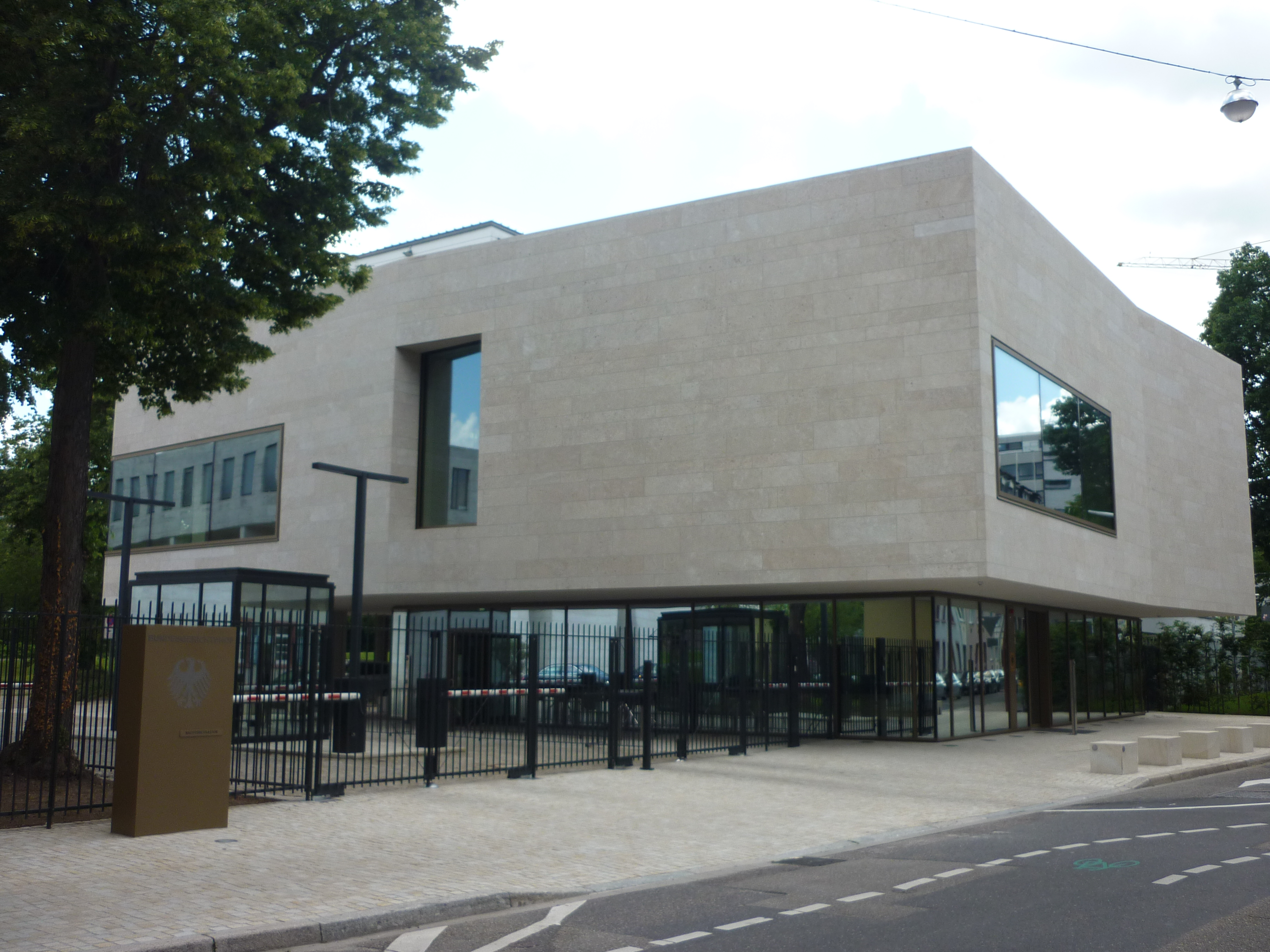 New entrance building of the Federal Court of Justice of Germany, built in 2012, with secured entrance for individuals and cars. The upper floor is covered by a new large courtroom for criminal cases.